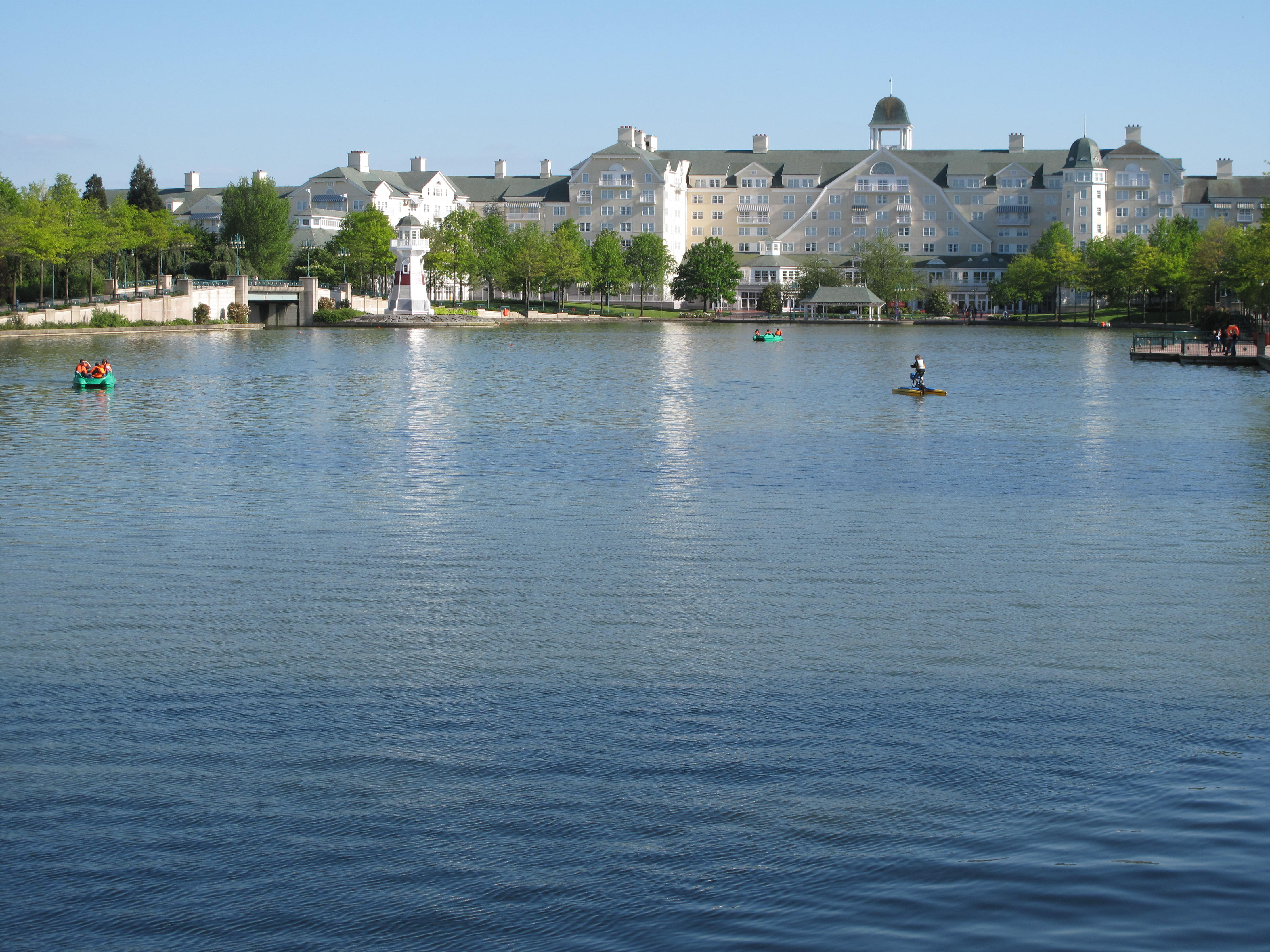 The lake of Disney Village on the banks of which are built the hotels Sequoia Lodge et Newport Bay (here in the background) at Disneyland Resort Paris.